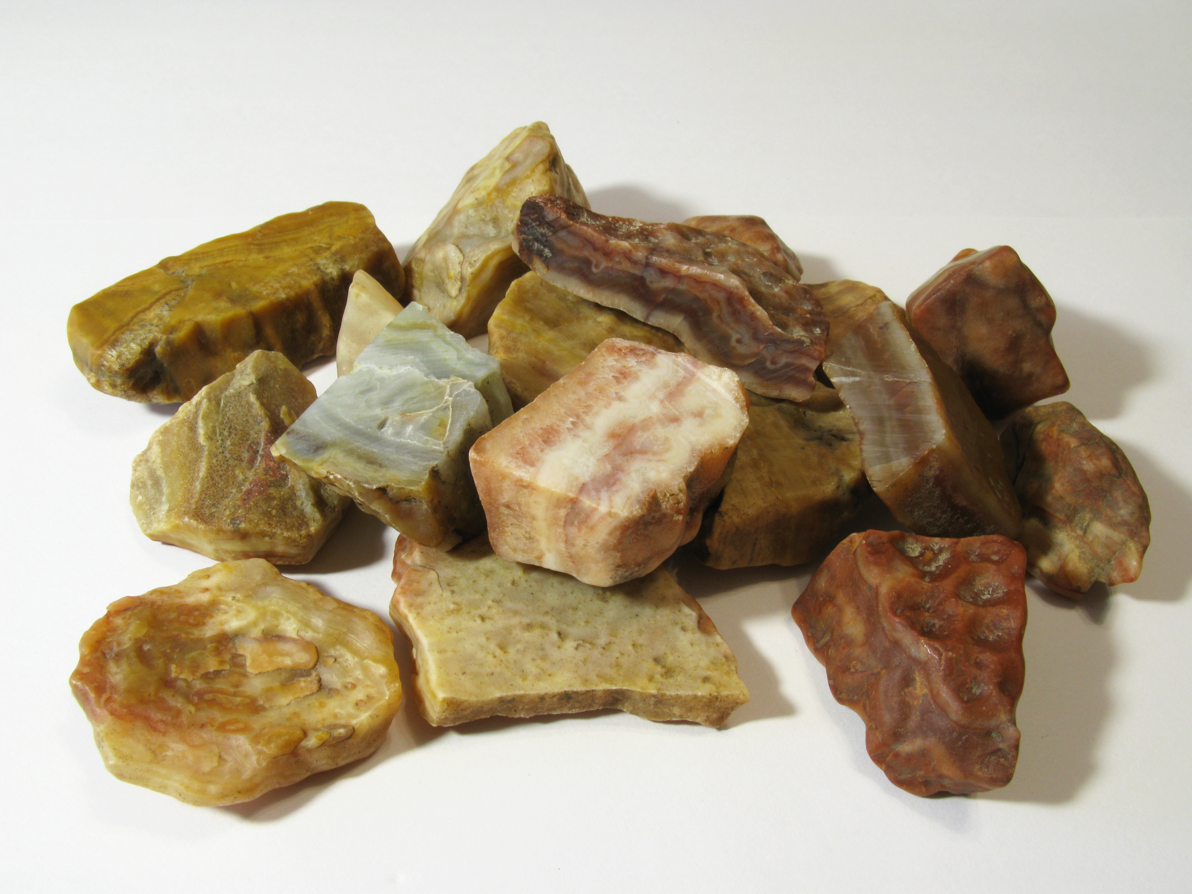 Perelivt from Shaytanka